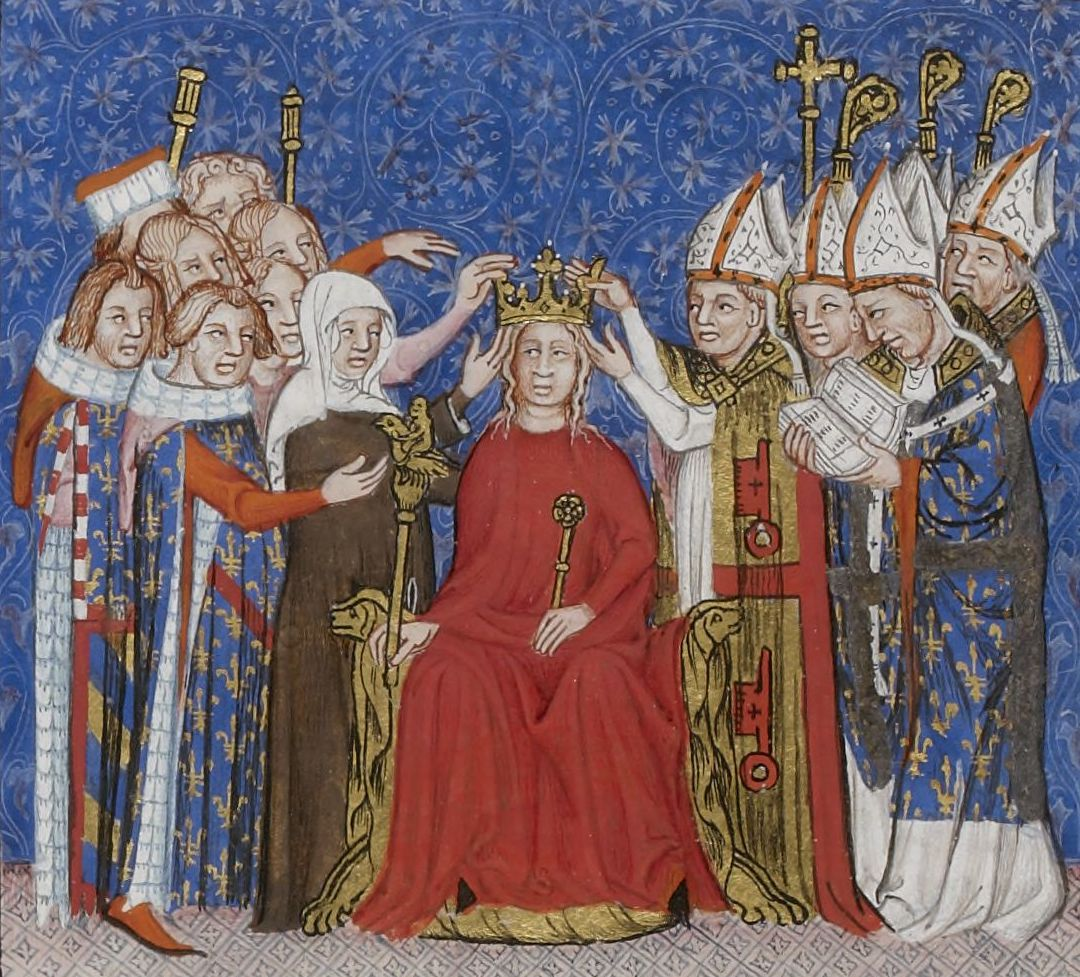 Coronation of Jeanne of Bourbon, consort of Charles V (1364)